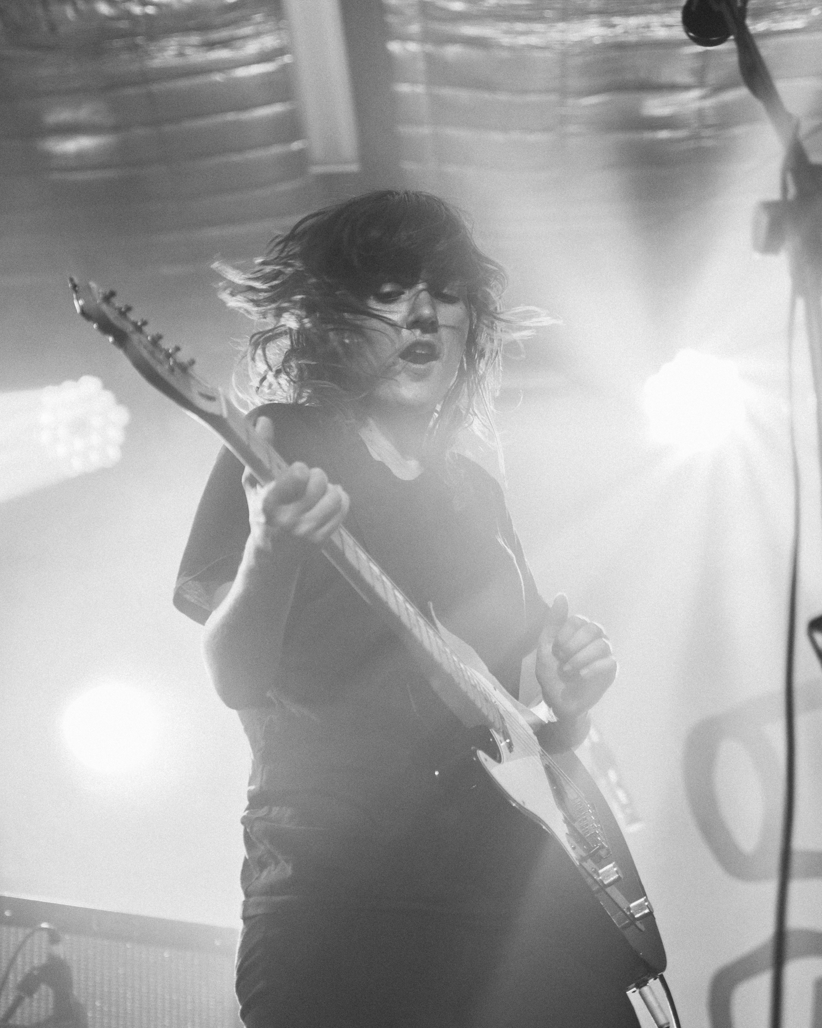 Courtney Barnett plays a rocking set at the Miami Marketta, Gold Coast, Australia Photo: .au